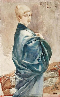 Young Woman in a Blue Kimono